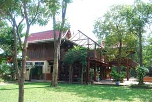 Stilt House, Amphoe Doem Bang Nang Buat, Suphanburi province